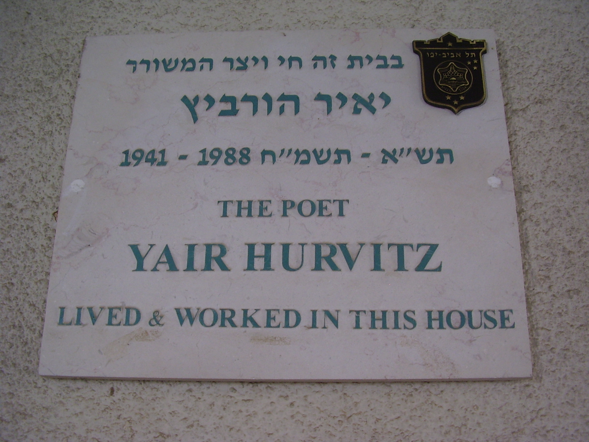 plaque memorial on the poet yair hurvitz in tel aviv לוחית זיכרון על ביתו של המשורר יאיר הורביץ ברח' שלמה המלך 94 בתל אביב